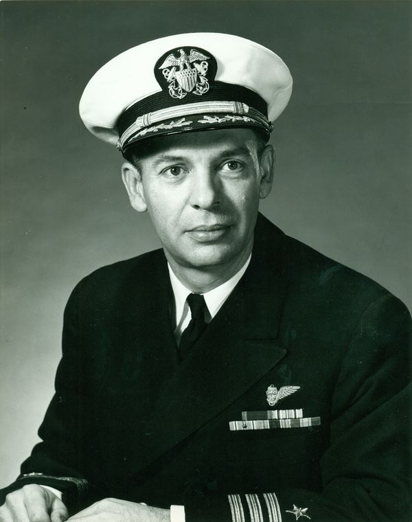 US Navy official service photo of Malcolm D. Ross.